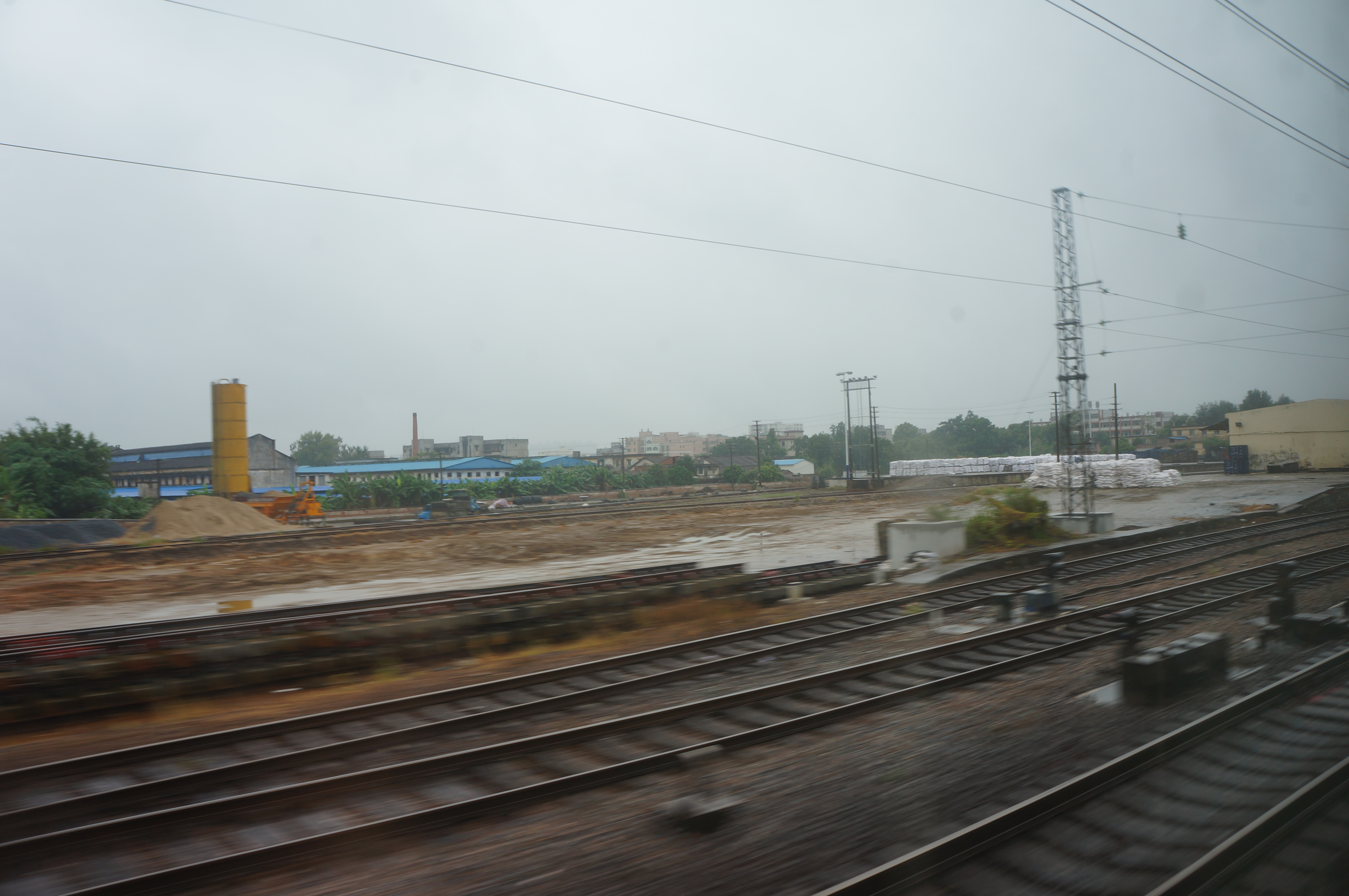 201609 Freight Yard of Yingde Station